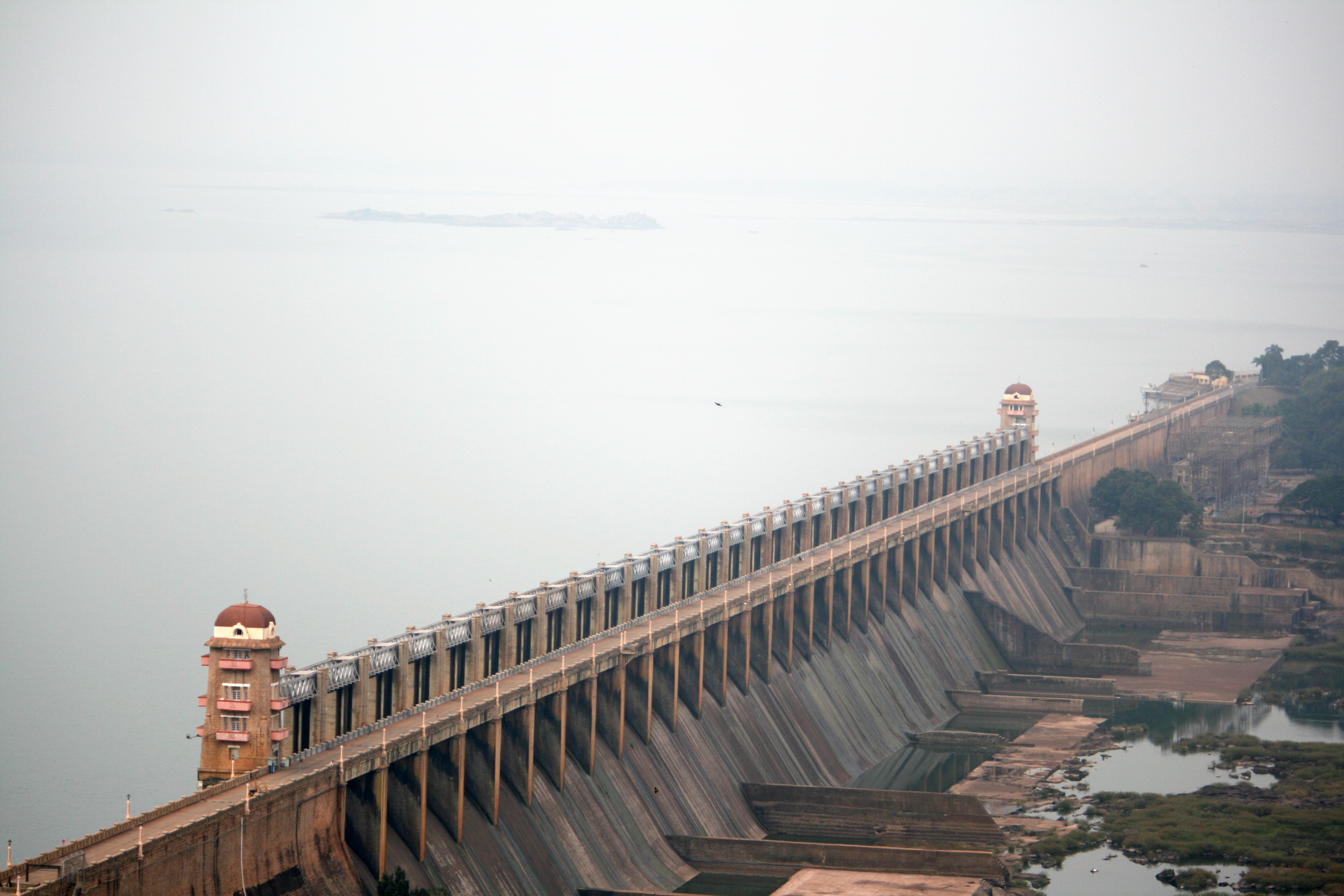 Tungabadra dam at Hospet